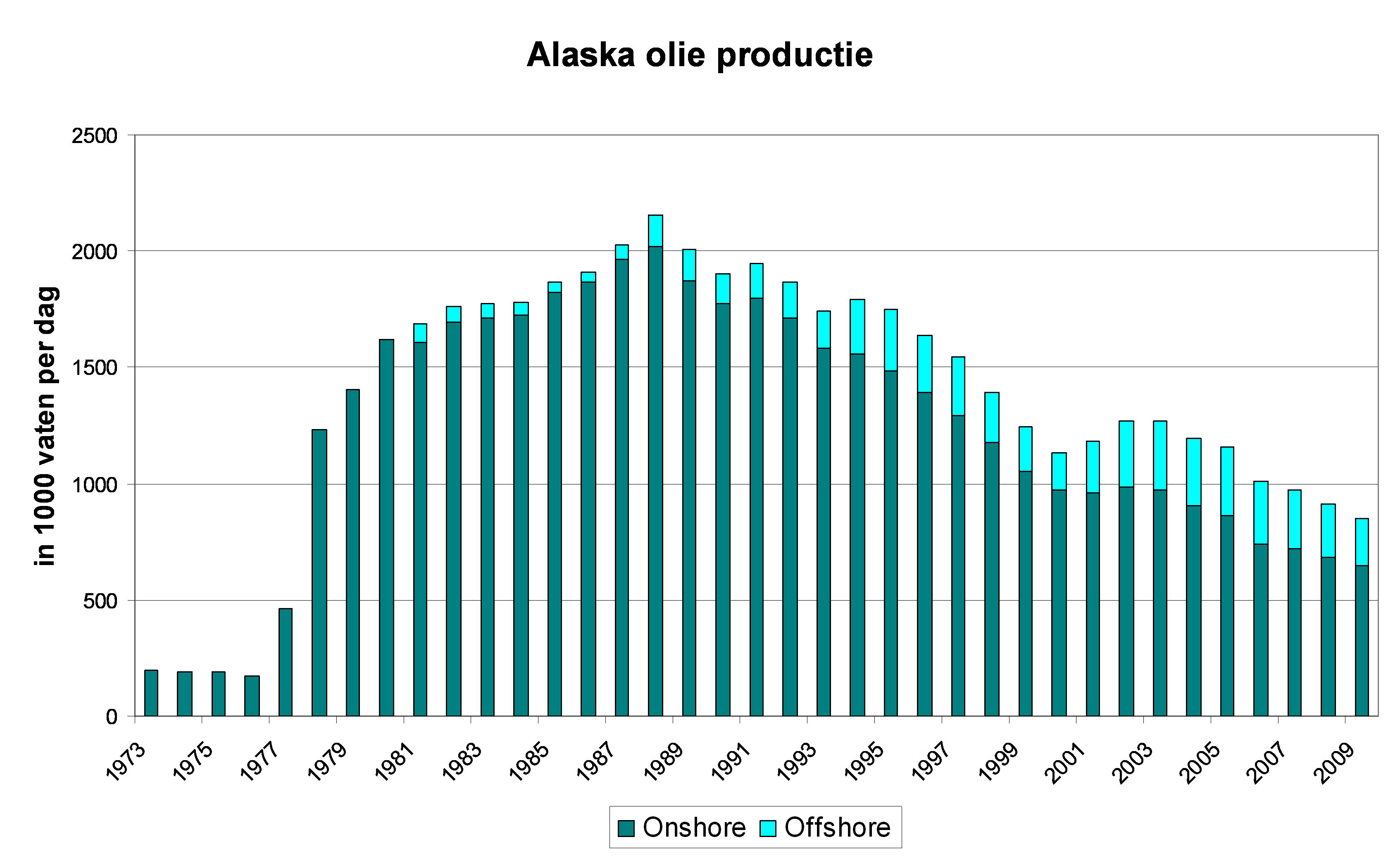 Oil production Alaska between 1973-2009. Source: Energy Information Administration